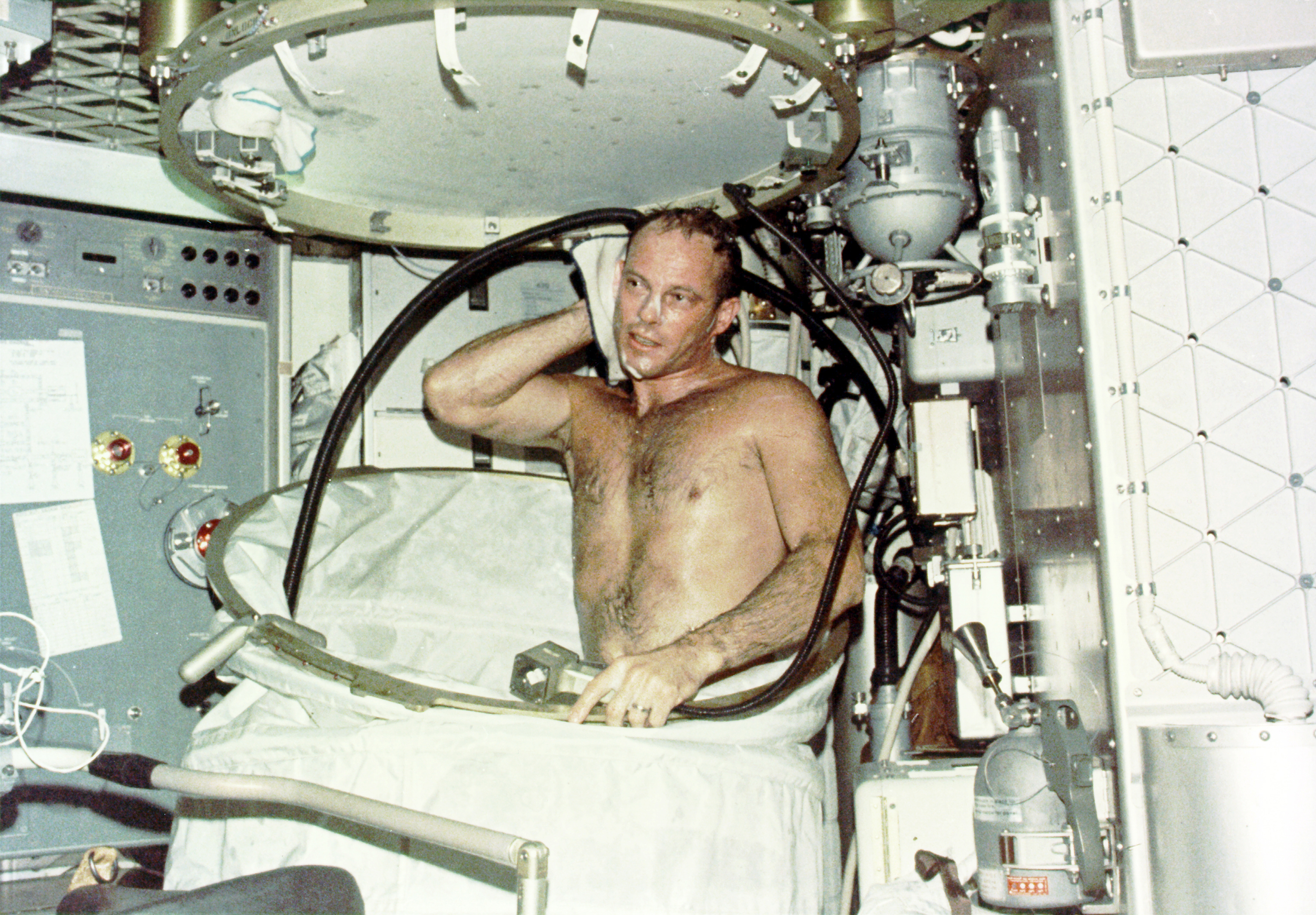 A close up view of astronaut Jack R. Lousma, Skylab 3 pilot taking a hot bath in the crew quarters of the Orbital Workshop (OWS) of the Skylab space station cluster in Earth Orbit. This picture was taken with a hand-held 35mm Nikon camera. Astronaut Lousma, Alan Bean and Owen K. Garriott remained within the Skylab space station in orbit for 59 days conducting numerous medical, scientific and technological experiments. In deploying the shower facility the shower curtain is pulled up from the floor and attached to the ceiling. The water comes through a push-button shower head attached to a flexible hose. Water is drawn off by a vacuum system. Image # : SL3-108-1295